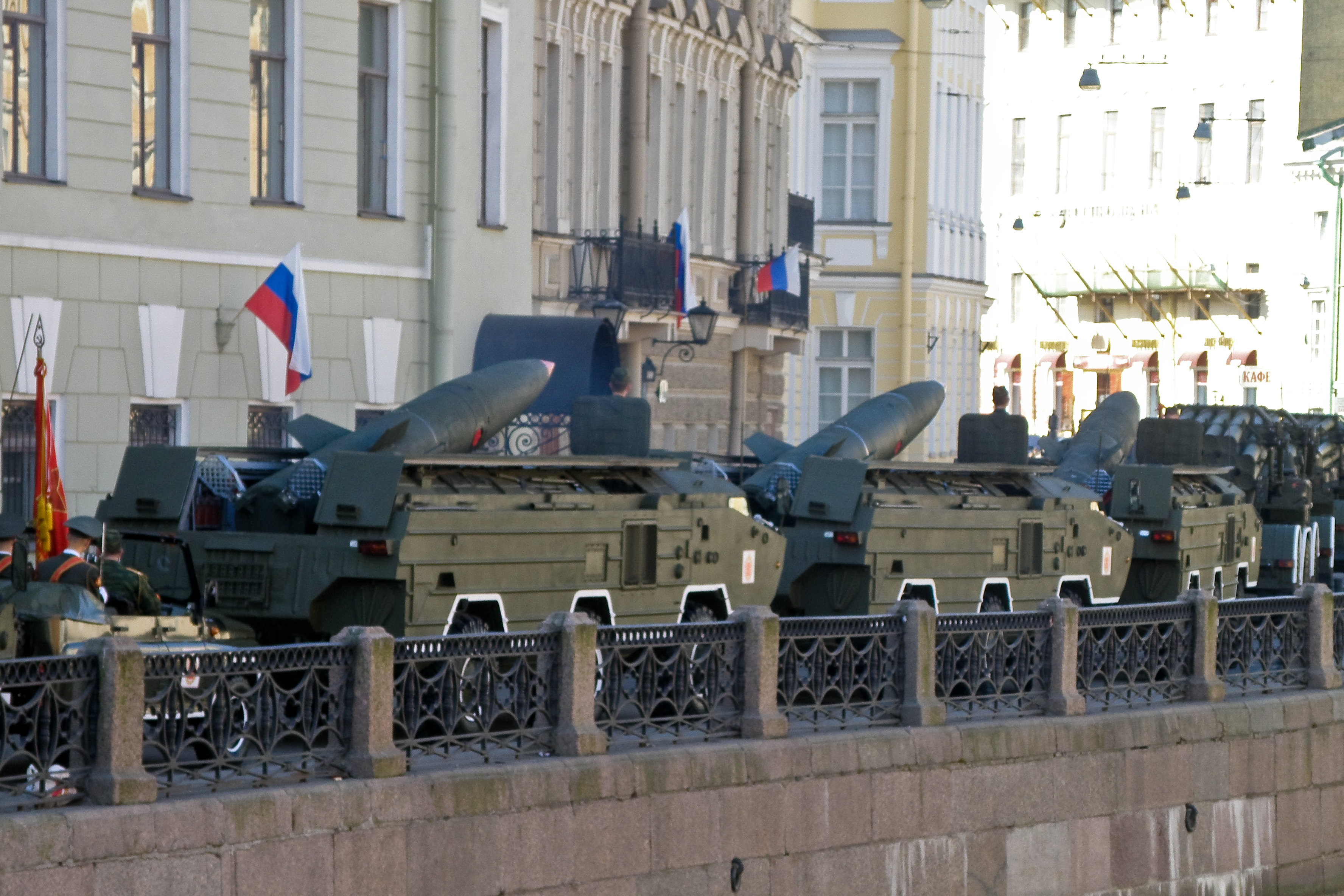 OTR-21 Tochka TELs in Saint Petersburg in 2009.